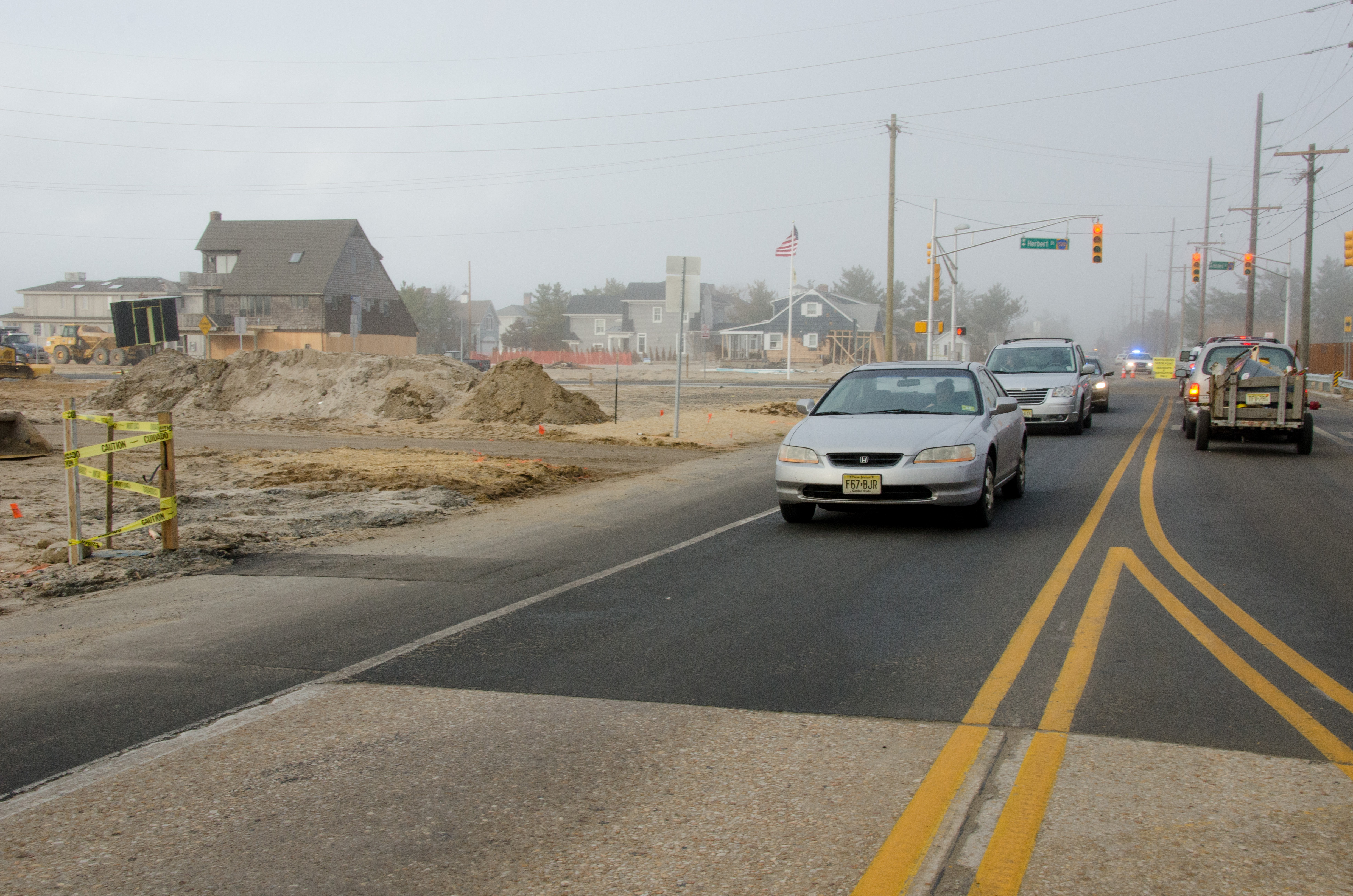 Mantoloking, N.J., Jan. 30, 2013 -- Route 35, a major thoroughfare in the New Jersey shore, is finally open to thru traffic after more than three months of being closed. Photo by Liz Roll/FEMA - Location: Mantoloking, NJ